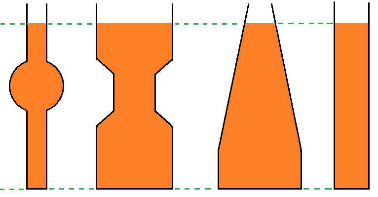 Paradoxo Hidrostático